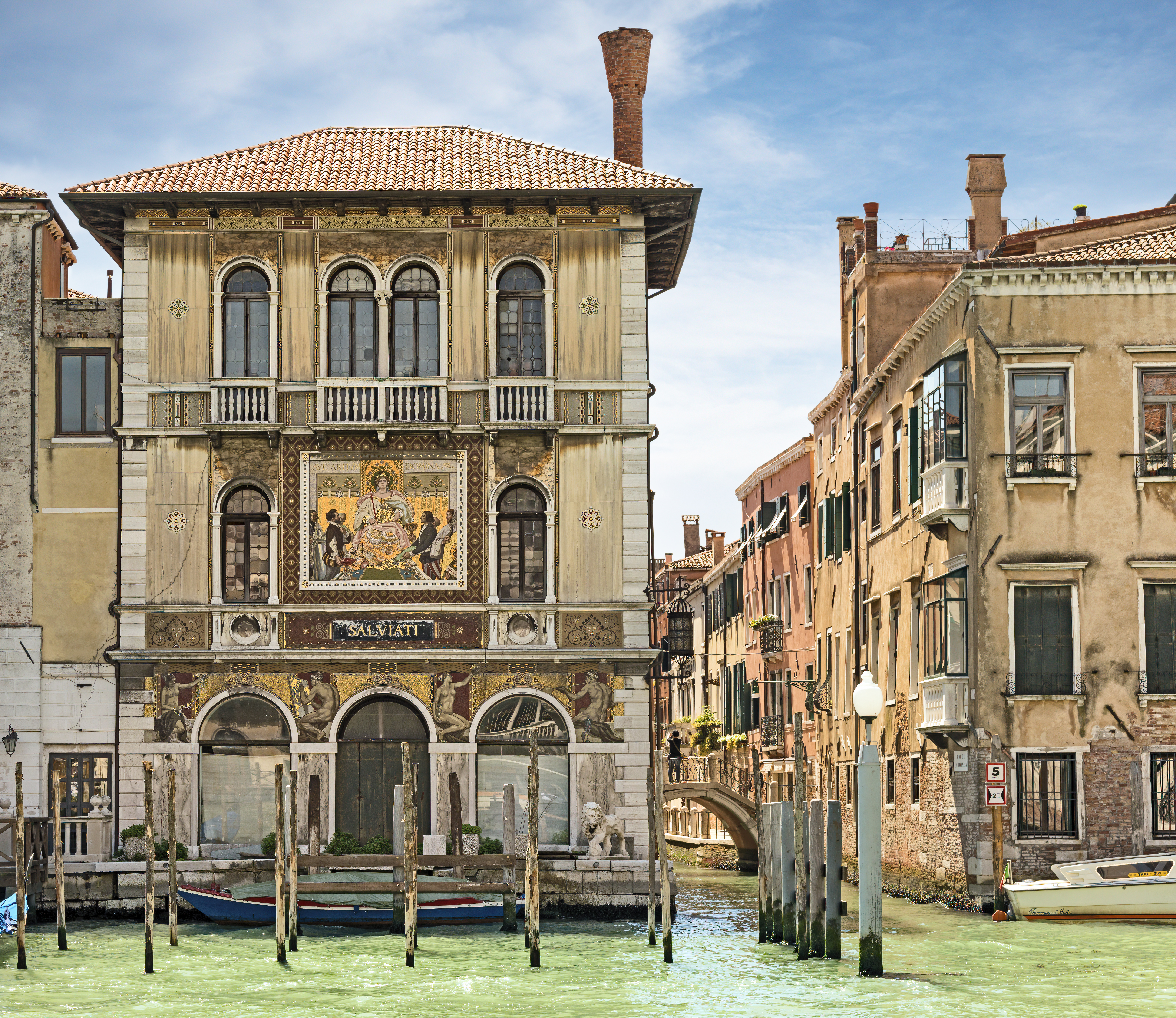 Palace Salvati in venice - Facade on Grand canal.